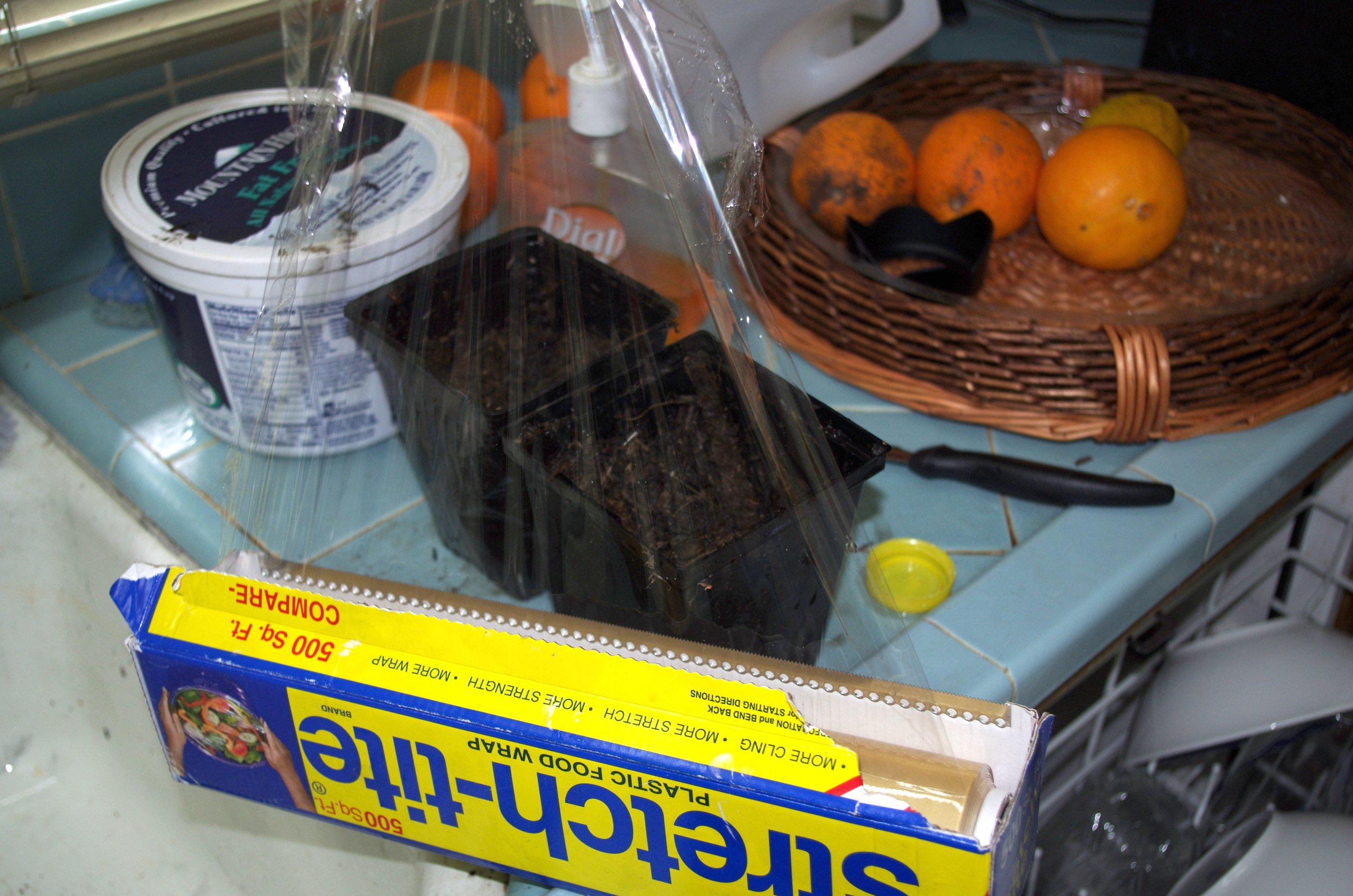 Today's project - starting a kumquat tree from seed. These kumqwats were heavenly and so I wanted to replicate the tree.